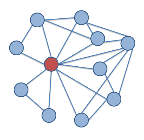 An example ego network.